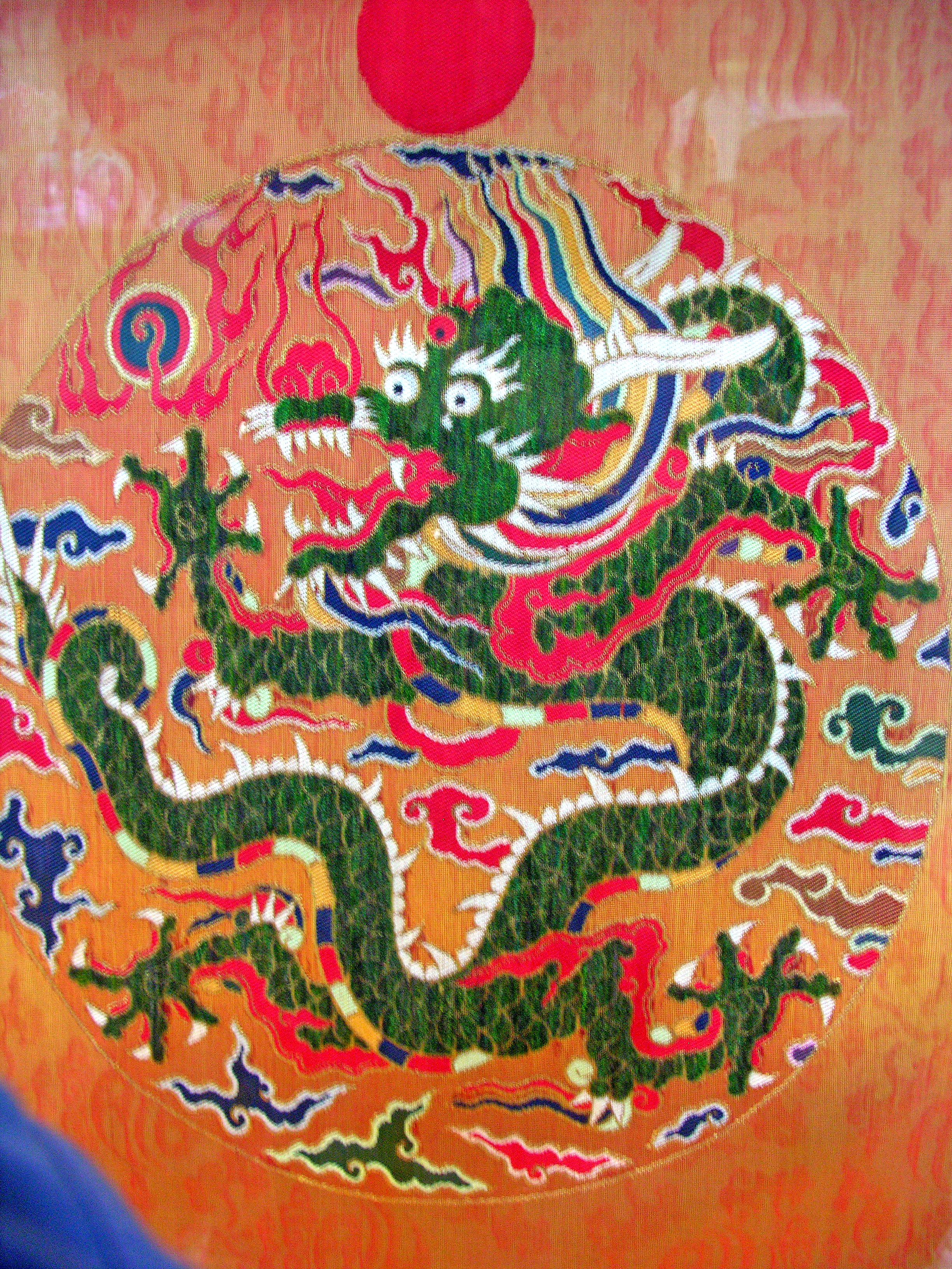 Items found in the tomb, gold coins, wooden figurines, and cloth.